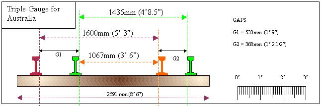 Triple Gauge in Australia